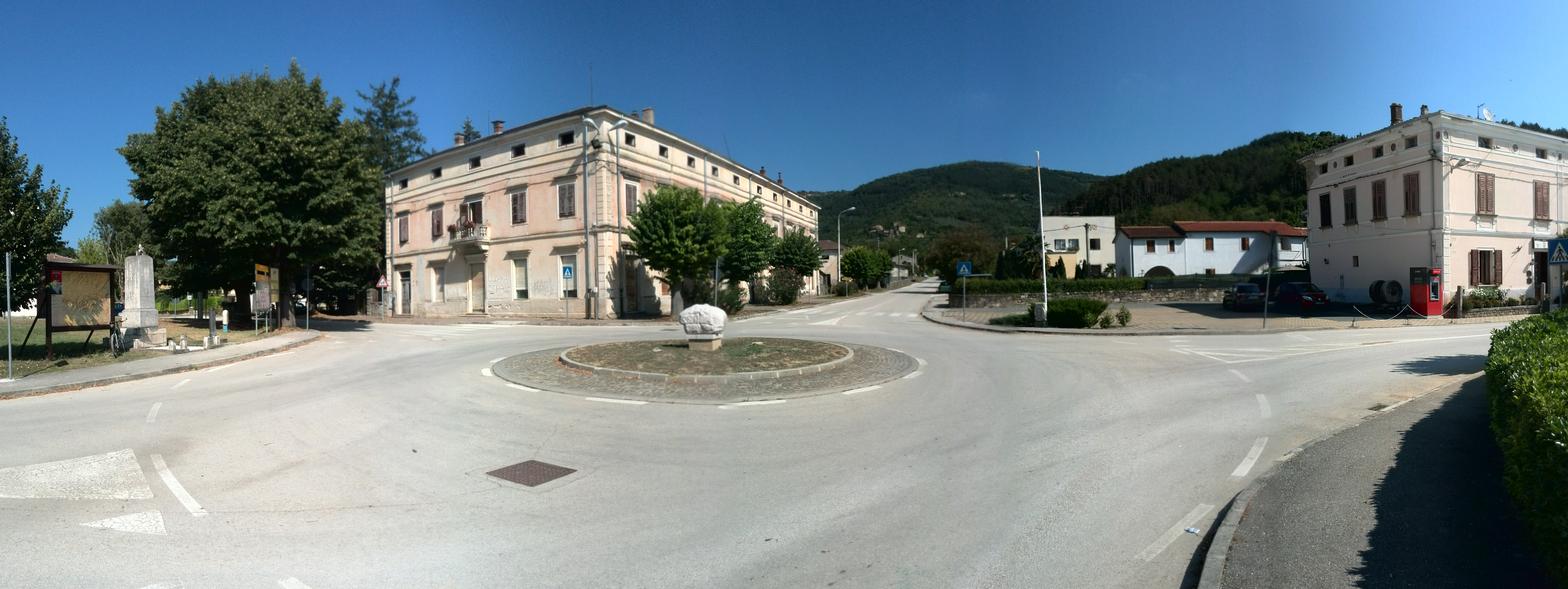 Livade (Oprtalj, Istra)